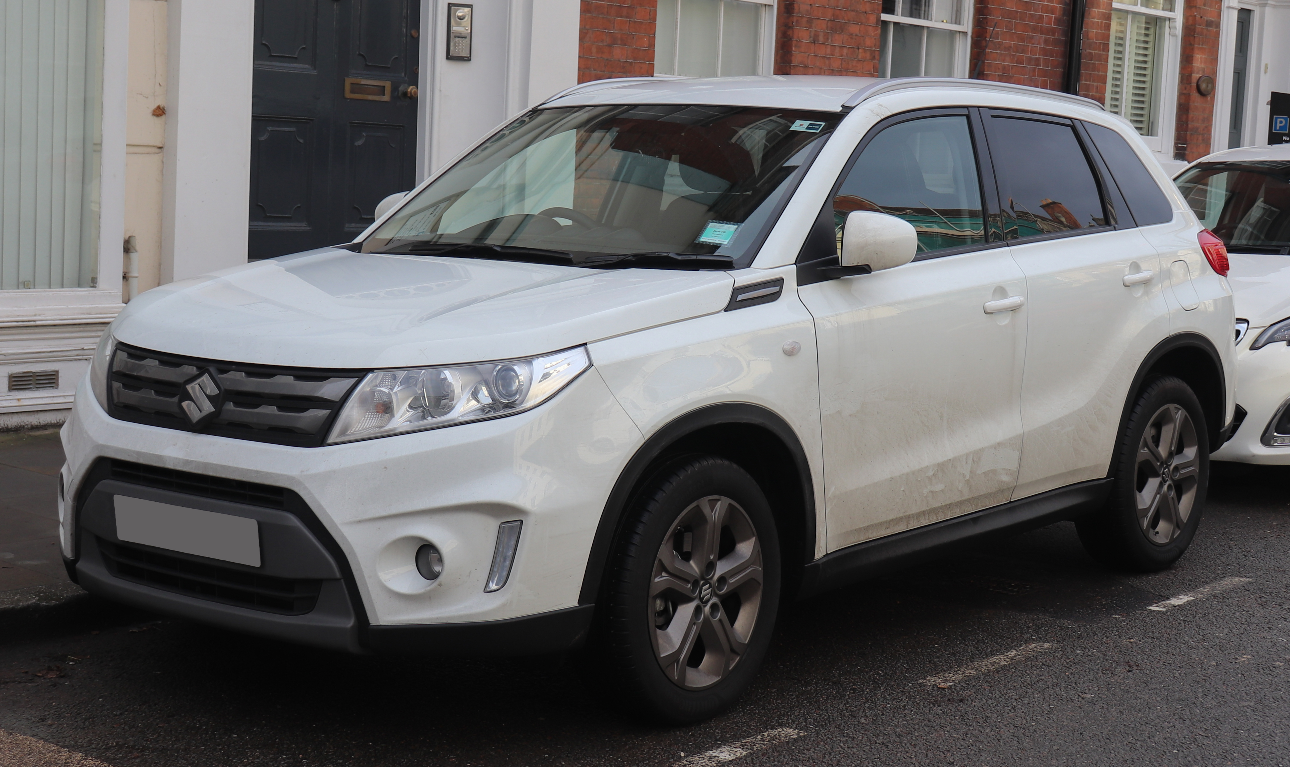 2018 Suzuki Vitara SZ-T Automatic 1.6 Taken in Warwick